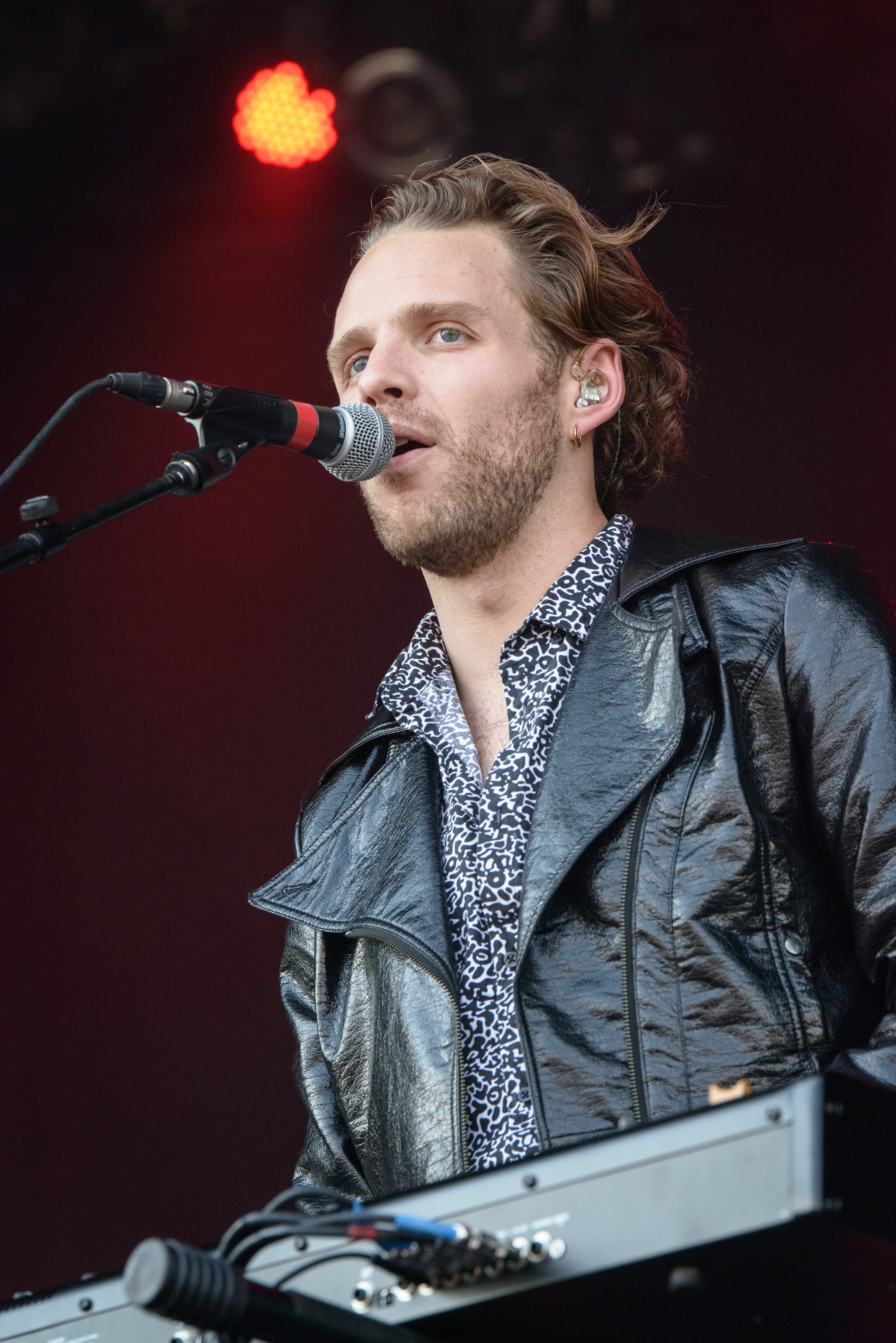 MsMr @ Lollapalooza 2015